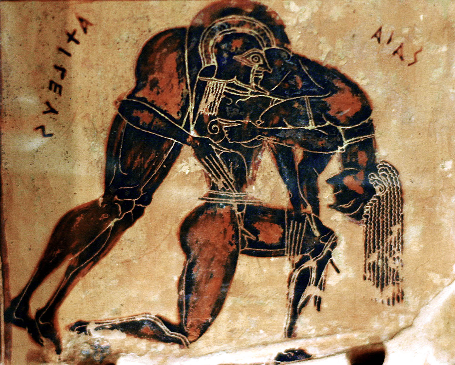 Large Attic Black-figure volute-krater dating to c. 570-565 BC